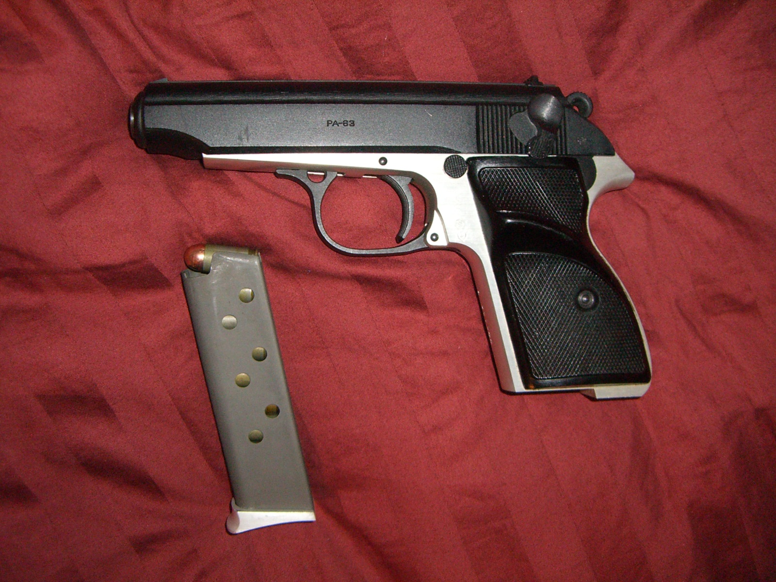 PA-63 pistol with Clip